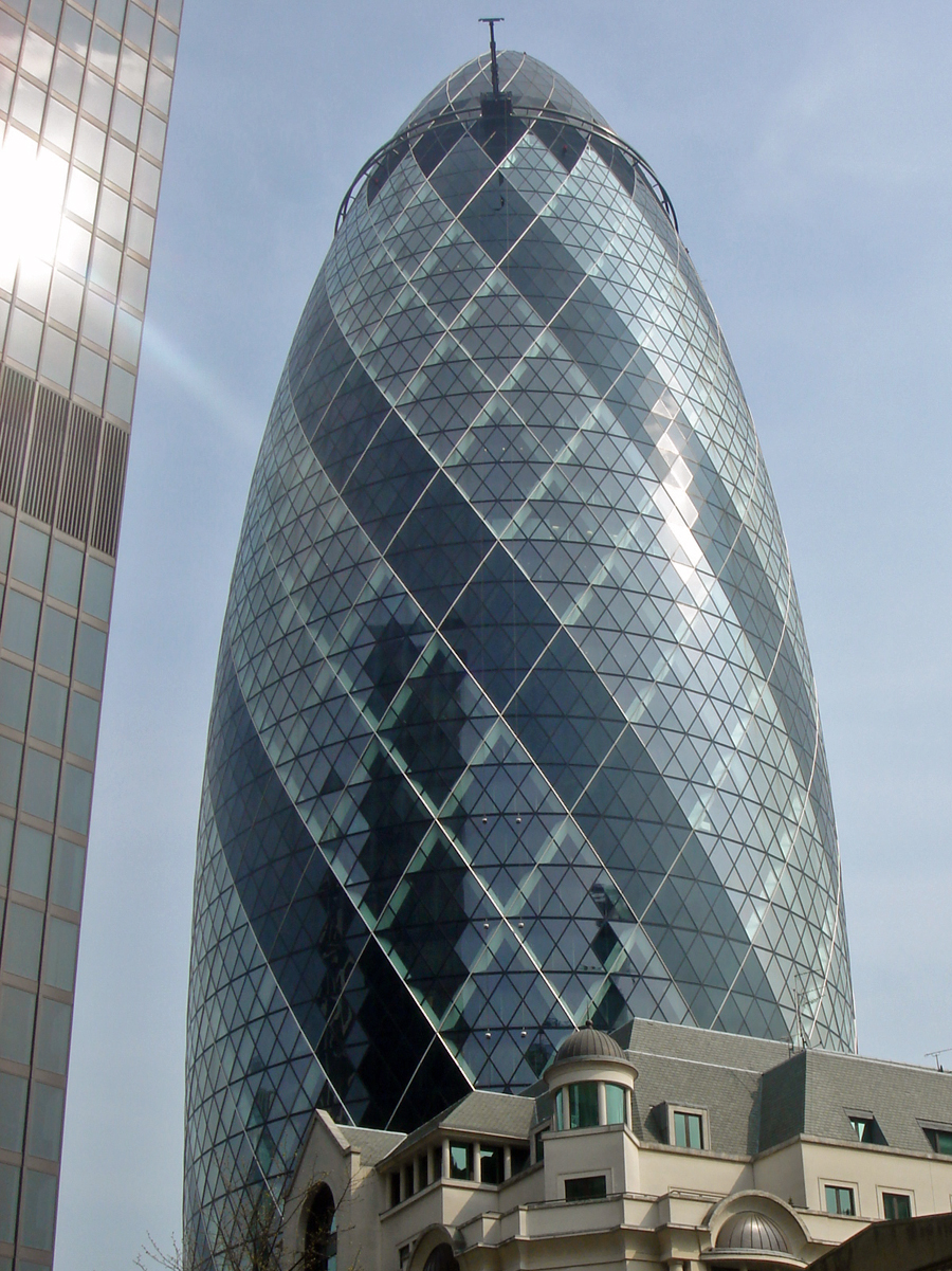 Swiss Re building financial district London